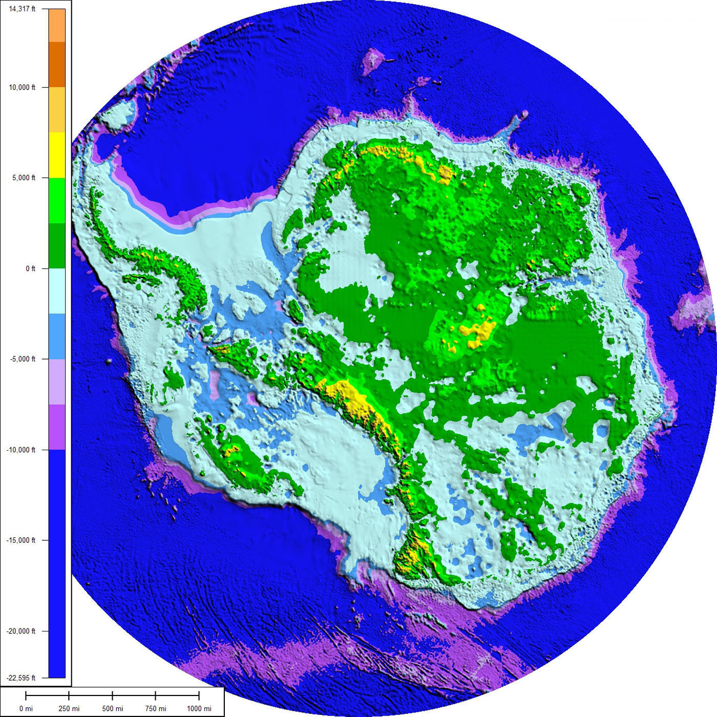 The above map shows the subglacial topography and bathymetry of Antarctica. As indicated by the scale on left-hand side, the different shades of blue and purple indicate parts of the ocean floor and sub-ice bedrock, which are below sea level. The other colours indicate Antarctic bedrock lying above sea level. Each colour represents an interval of 2,500 feet in elevation. Map is not corrected for sea level rise or isostatic rebound, which would occur if the Antarctic ice sheet completely melted to expose the bedrock surface.